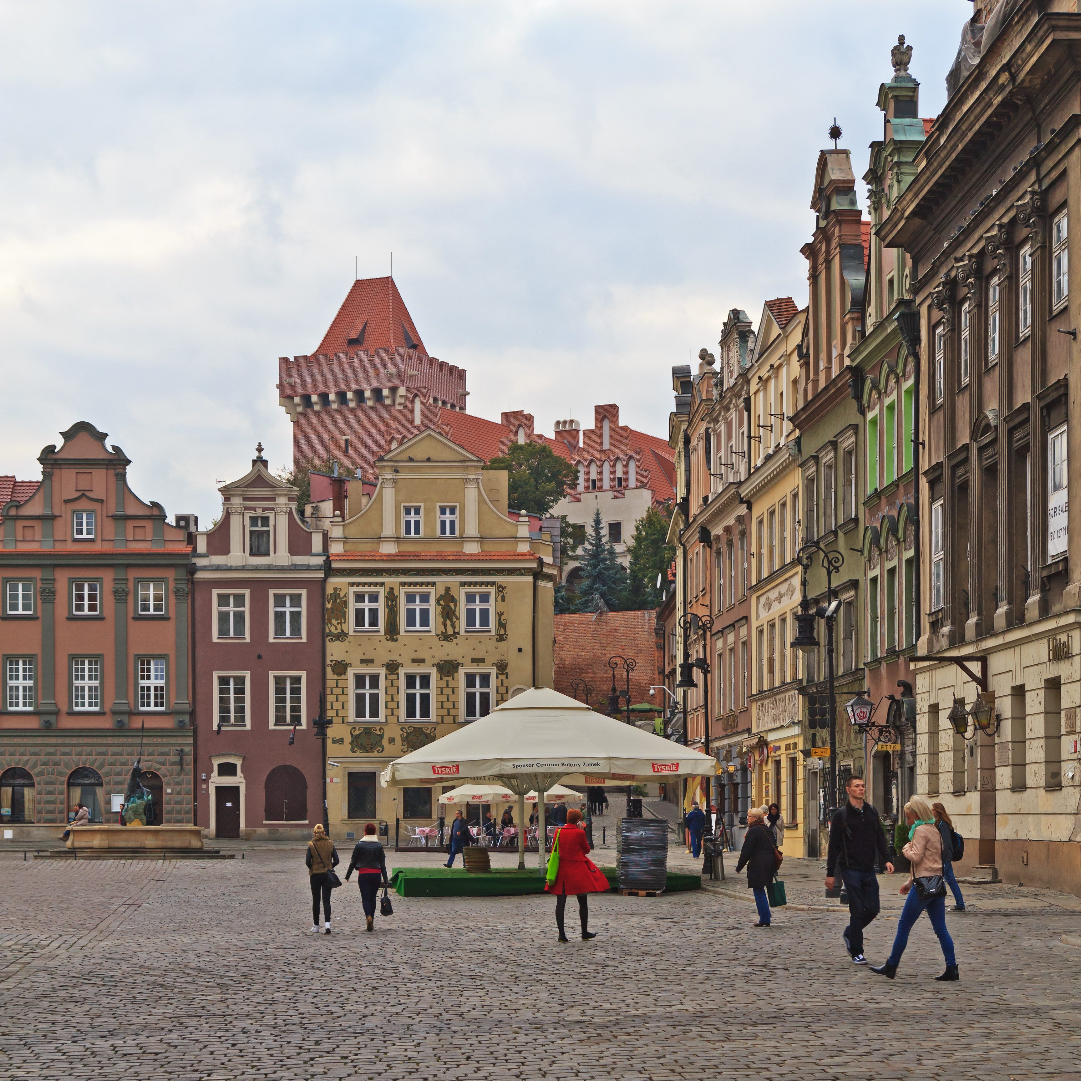 Old Market in Poznań, Greater Poland